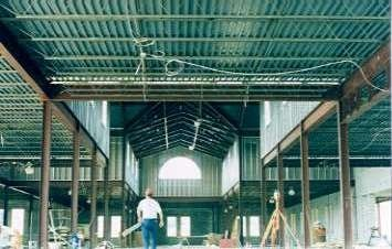 Photograph of interior of Hershey Public Library on Cocoa Avenue during construction.